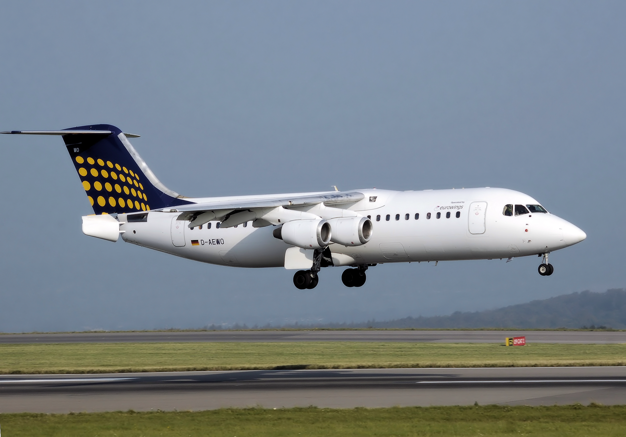 Lufthansa Regional (Eurowings) BAe 146-300 (D-AEWO) lands at Bristol International Airport, England. Taken by Adrian Pingstone in September 2008 and released to the public domain.